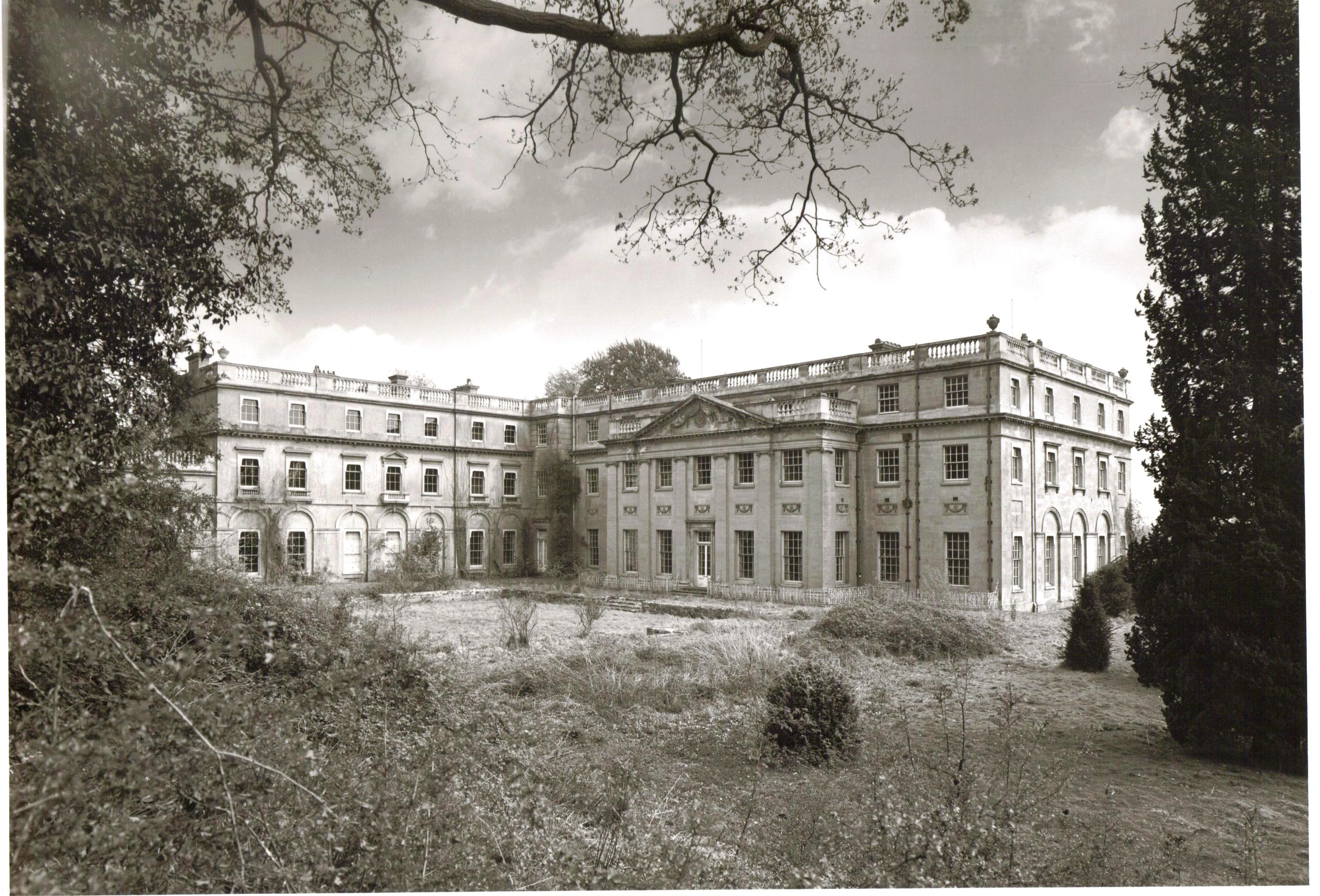 A photo of the Valence taken in 1904.